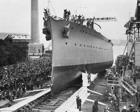 Photograph of launch of Australian cruiser HMAS Adelaide. Launched by Lady Munro Ferguson at Cockatoo Island Dockyard, Sydney.